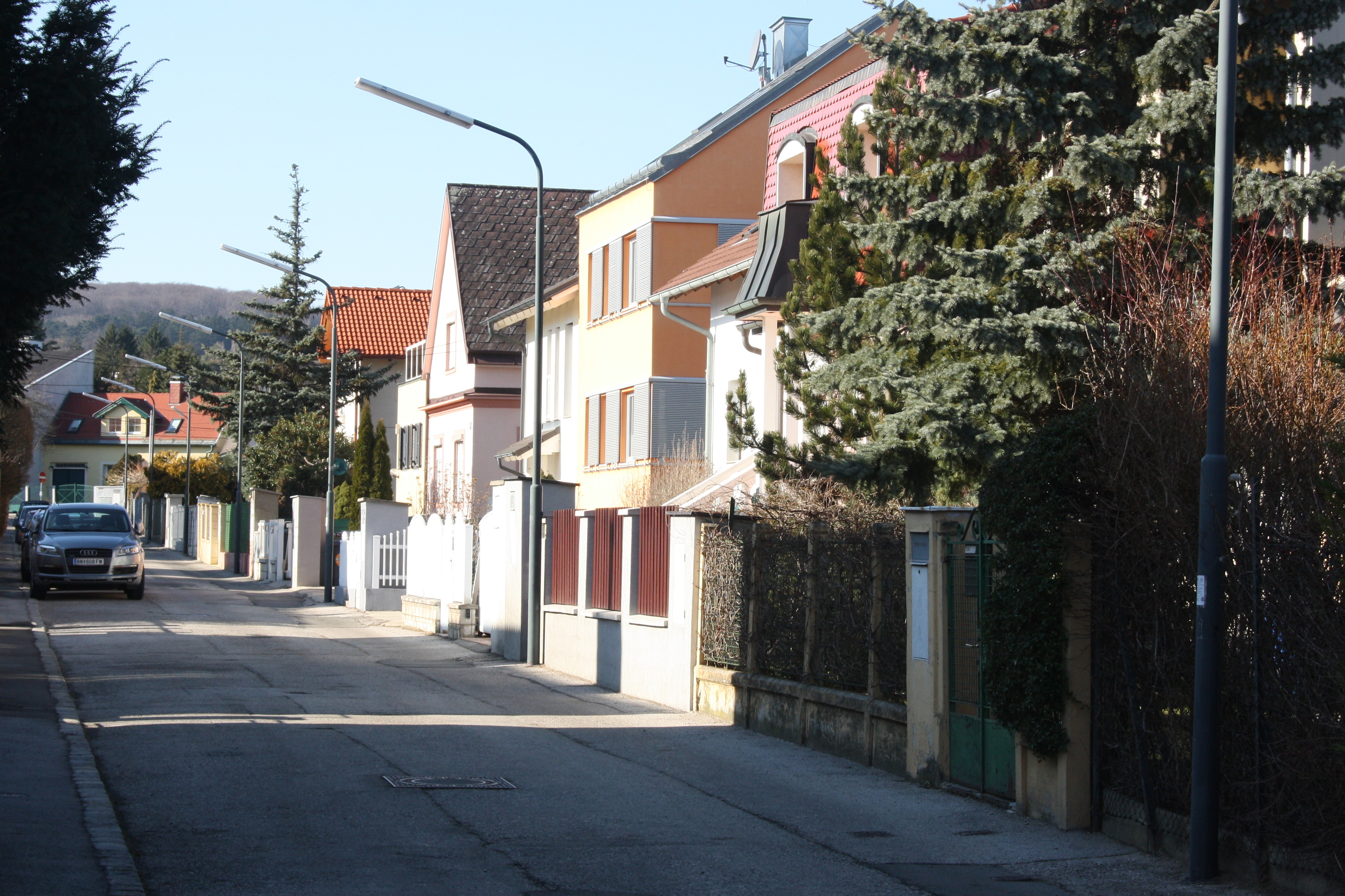 Dr.-Schreber-Gasse, SAT-Siedlung, Vienna.